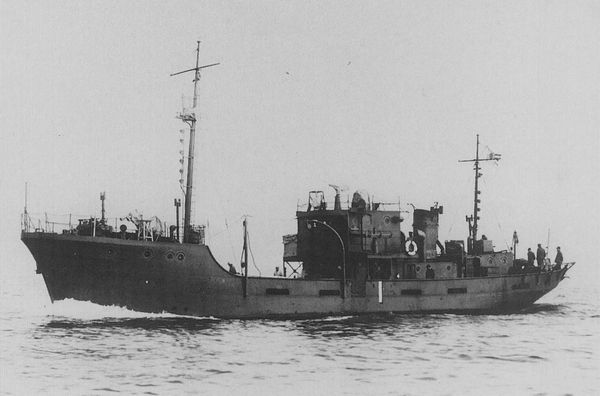 HIJMS Aux. Mminesweeper No.1